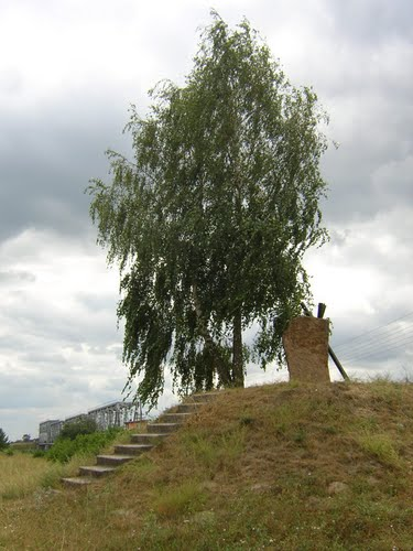 Monument to defenders of Makoshino village, Ukraine, during WW2